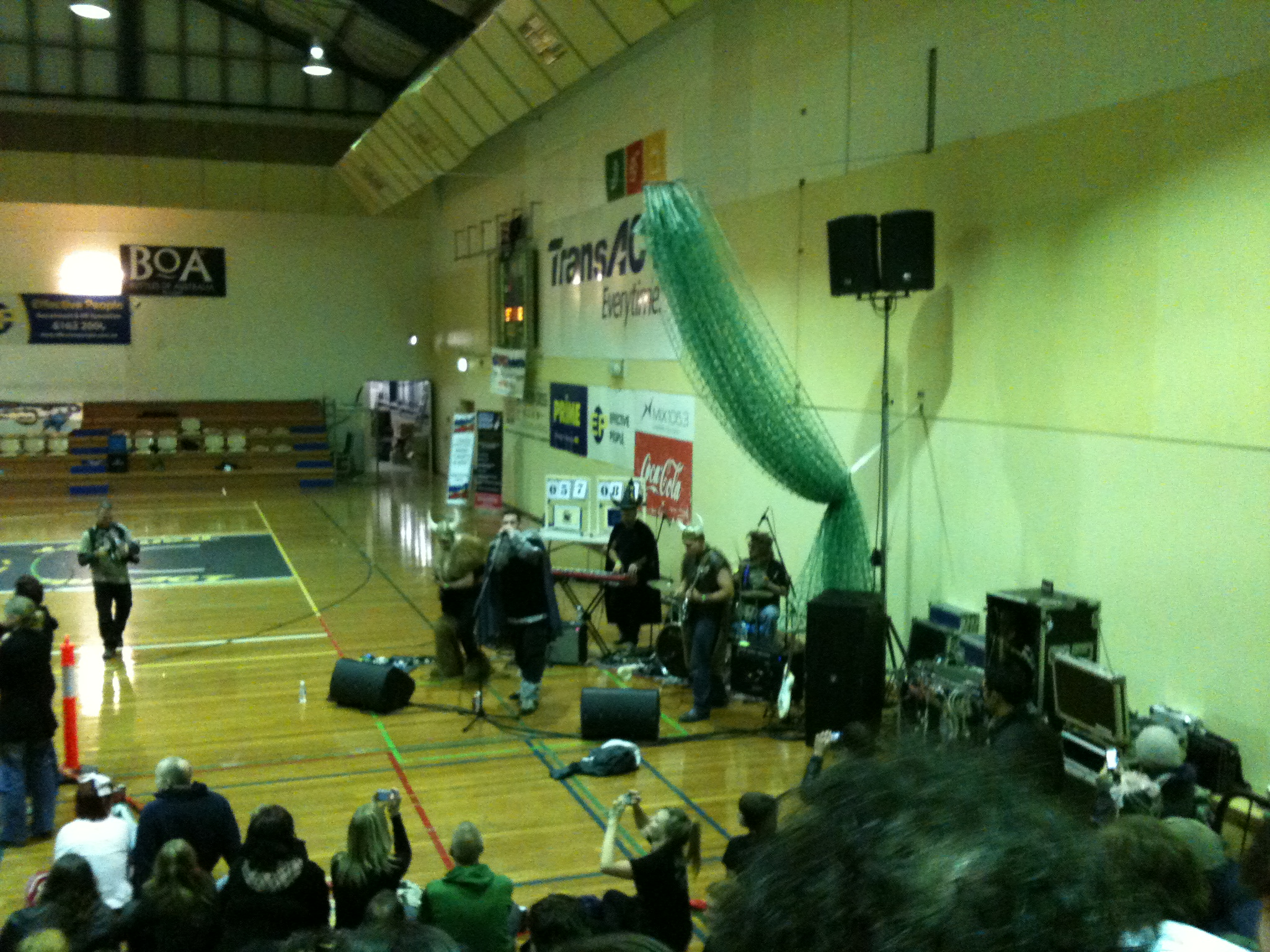 Knight-Hammer performing at a half time match for the Canberra Roller Derby League.